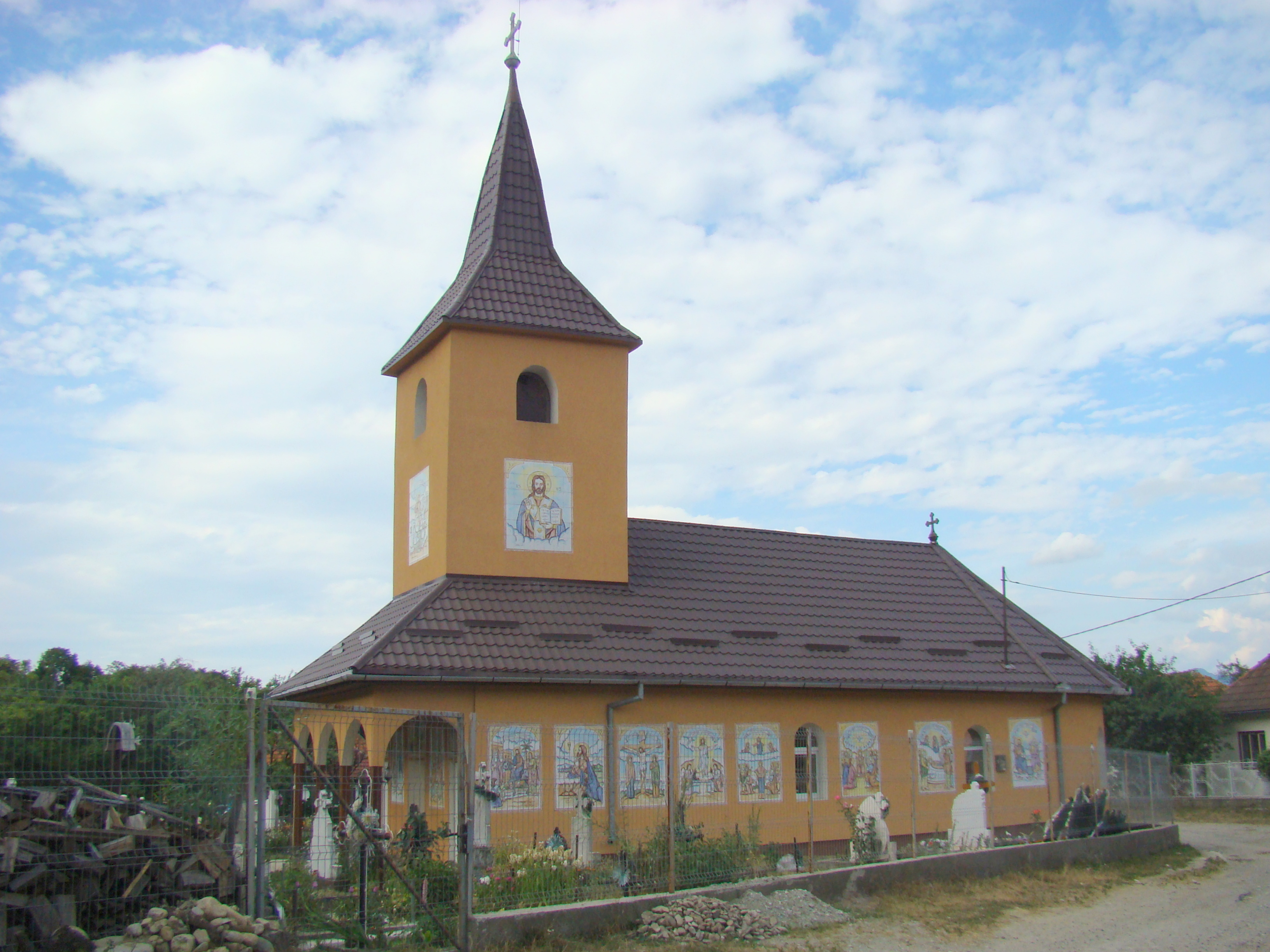 Hobița, Hunedoara county, Romania